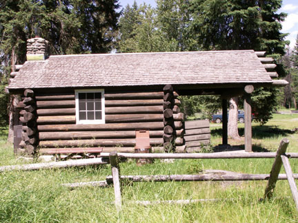 Logging Creek Fire Guard Cabin, Glacier National Park, Montana, USA